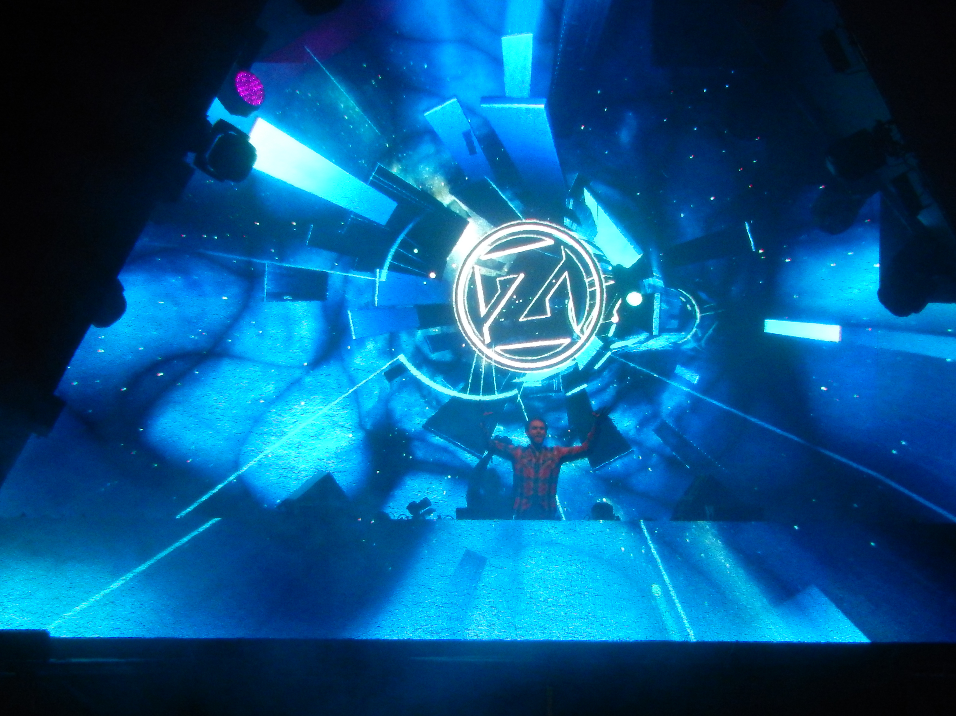 Zedd at 2015 Spring Awakening Festival